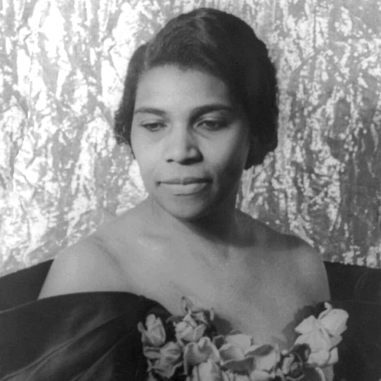 Marian Anderson